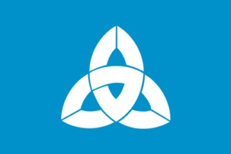 Flag of Mihama Fukui